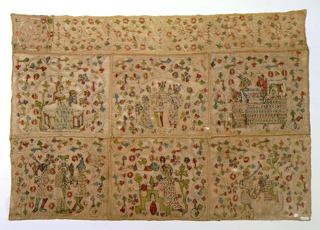 Germany, Lower Saxony, circa 1380 Textiles; altar cloths Polychrome silk and natural linen embroidery on natural linen 29 1/2 x 42 1/2 in. (74.93 x 108 cm) Purchased with funds provided by the Pierre Dupart Fund for Medieval Art and the Costume Council Fund (M.79.48) Costume and Textiles